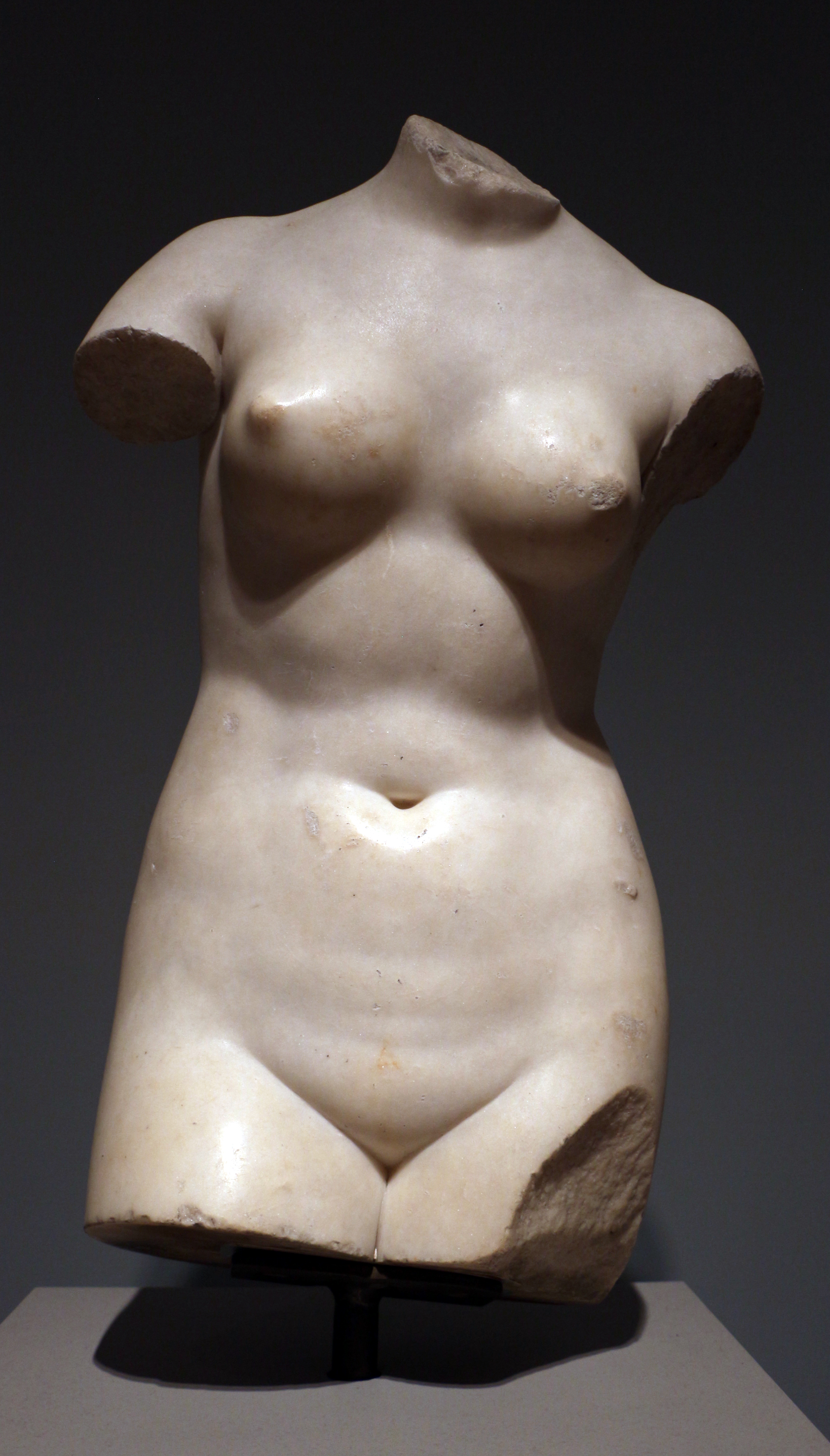 Antiquities in the Detroit Institute of Arts